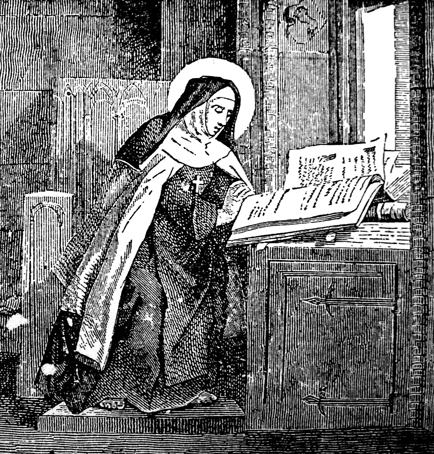 Saint Magdalena de Pazzi